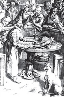 A detail from a gravure showing Pieter Pauw performing a public dissection in his anatomical theater in Leiden.